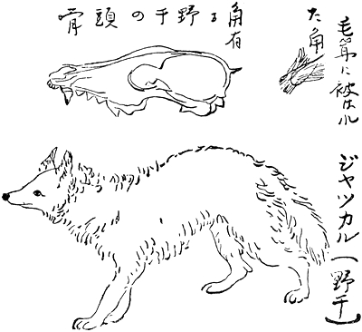 Yakan (野干, Jackal) from the Jūnishikō("十二支考", A Study of Twelve Animals of Chinese Zodiac).